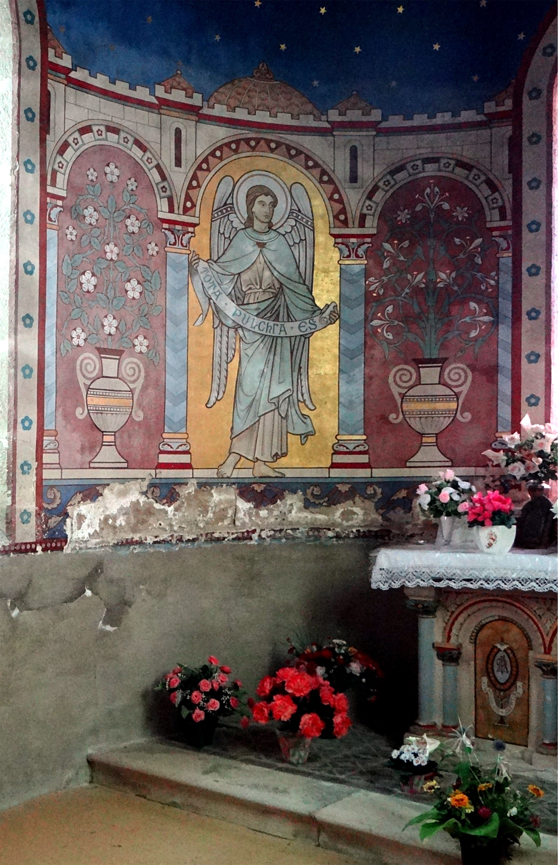 St. Alban Church, Lormes, Nièvre, France. Chapel of the Virgin. Mural invoking prayer "Tota pulchra es"